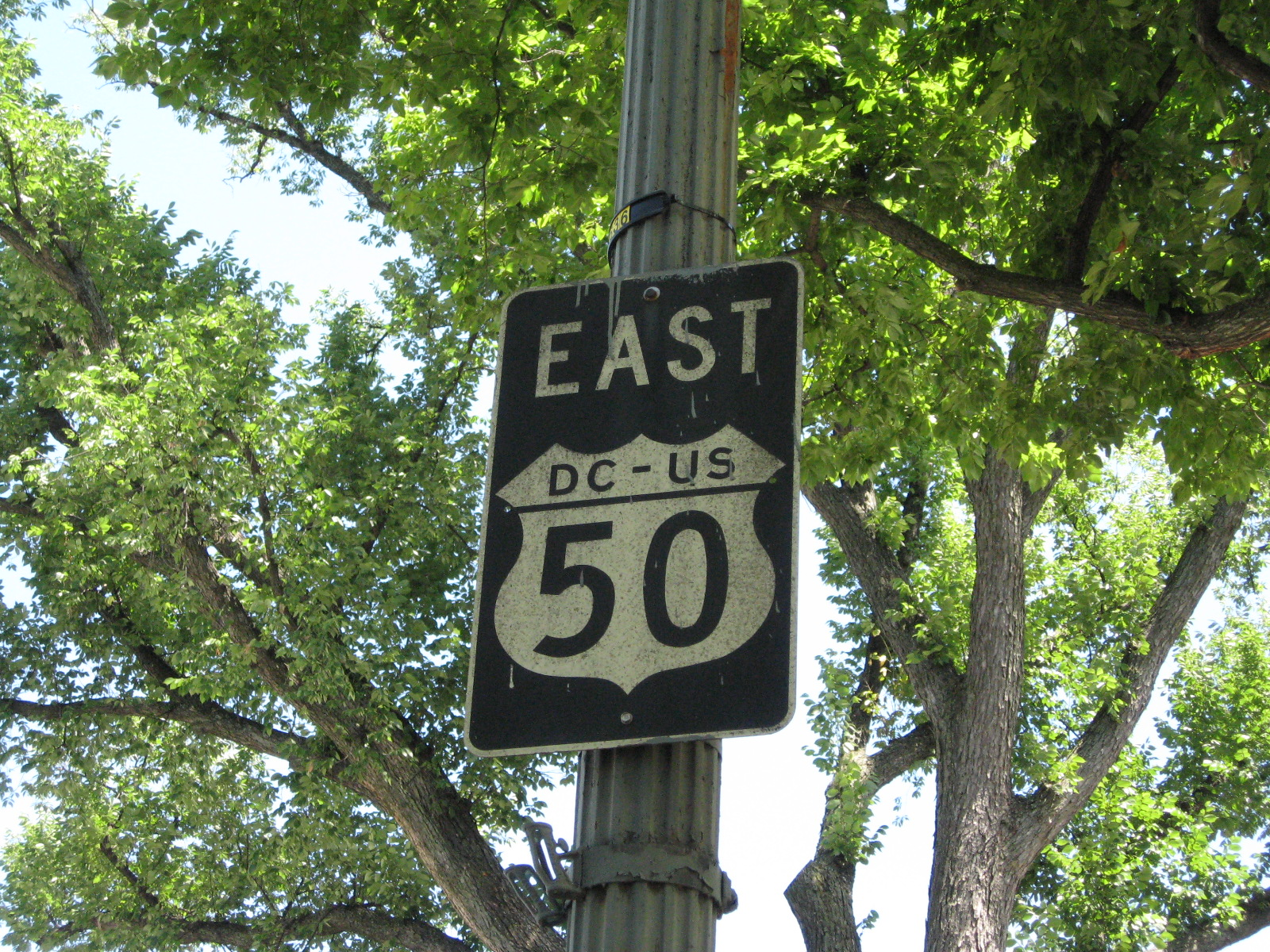 U.S. 50 shield with DC name on Constitution Ave in Washington, across from the Federal Reserve building.